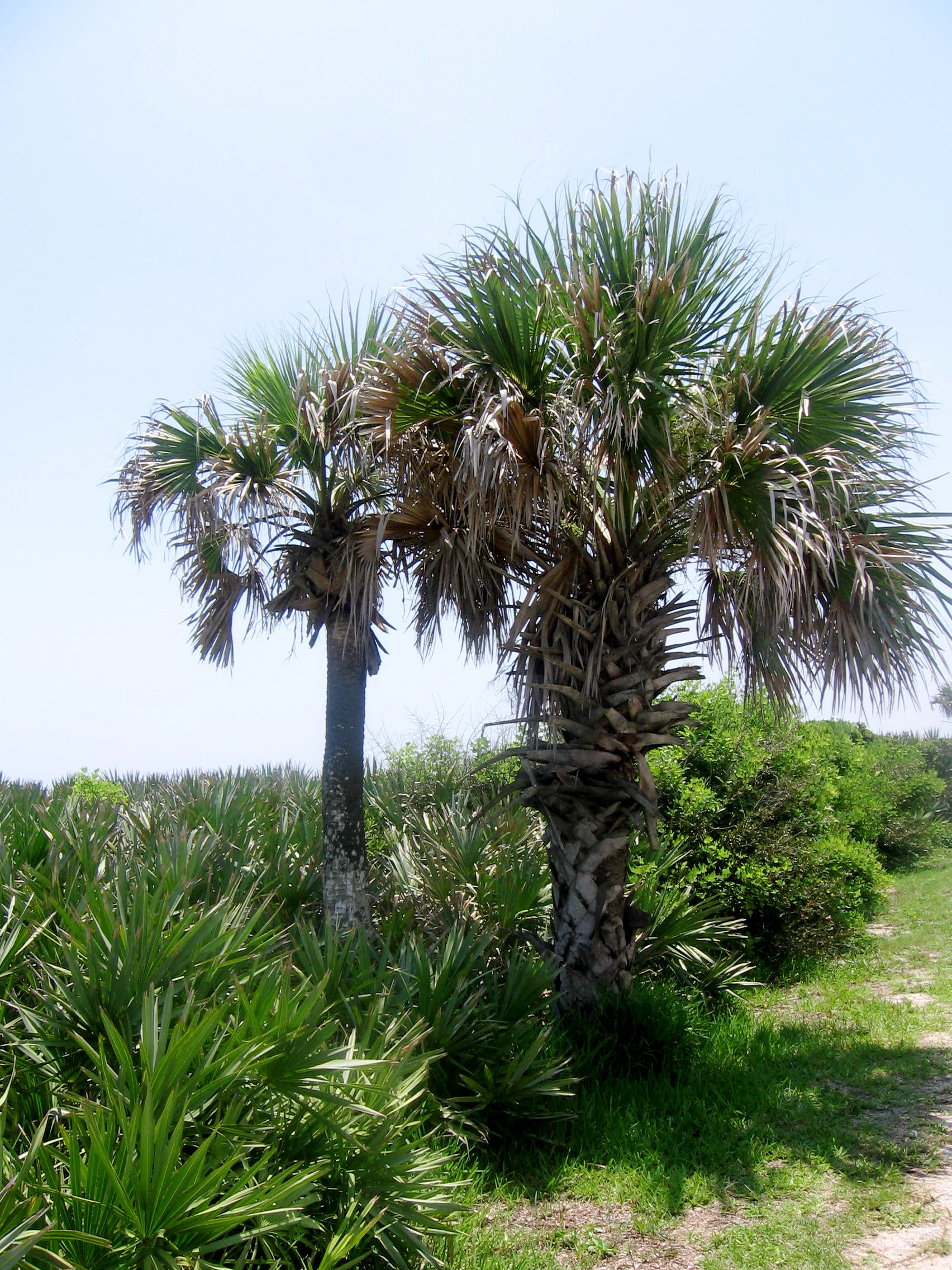 Sabal palmetto (cabbage palm) trees, with Serenoa repens understory. Landscape at Canaveral National Seashore, northeastern Florida.